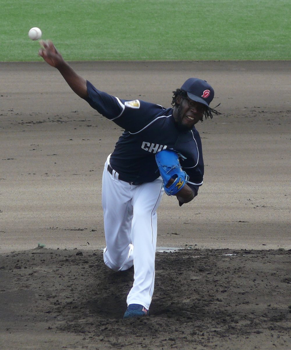 CD-Maximo-Nelson20120714